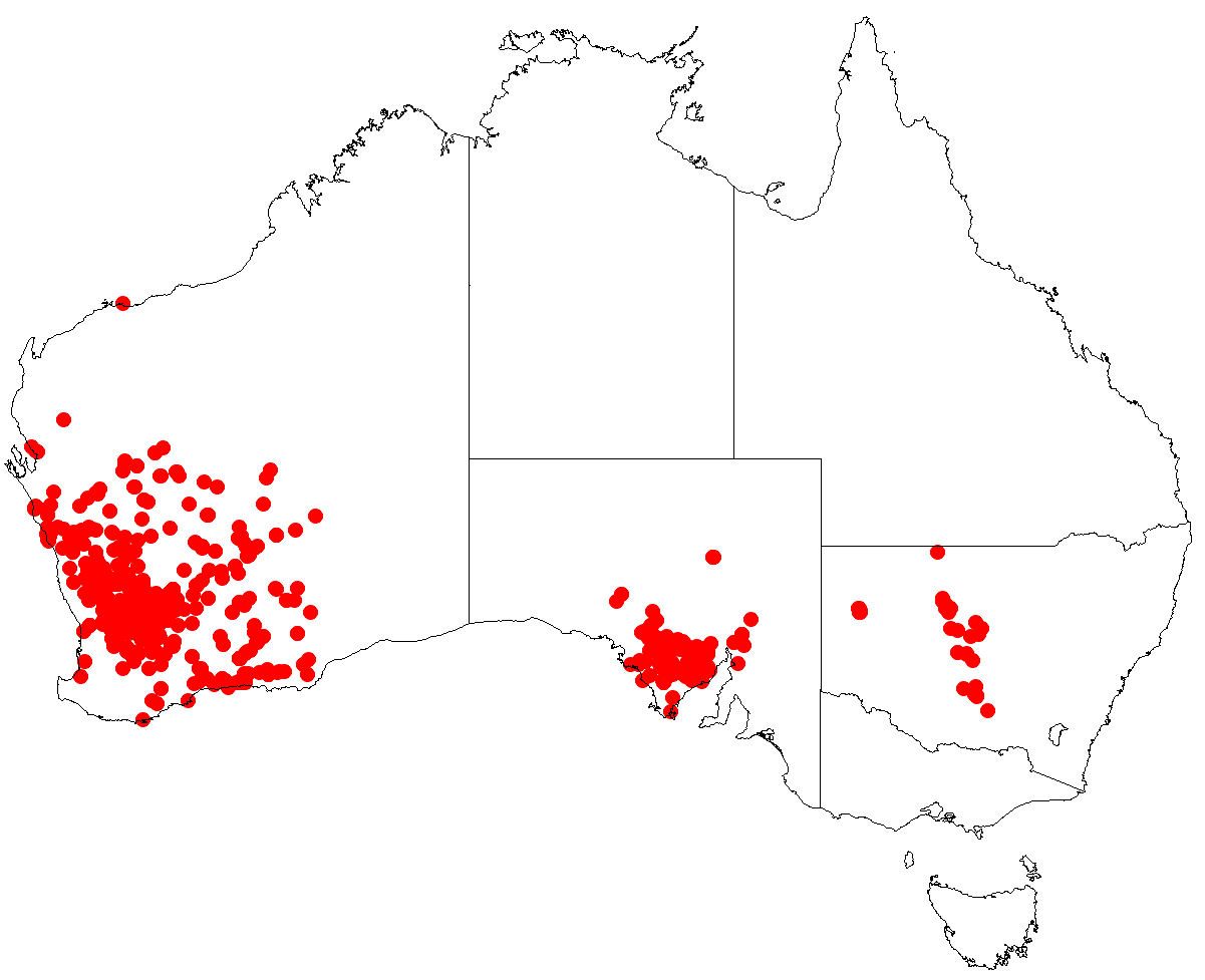 Trachymene ornata Occurrence data from AVH, 12 June 2018